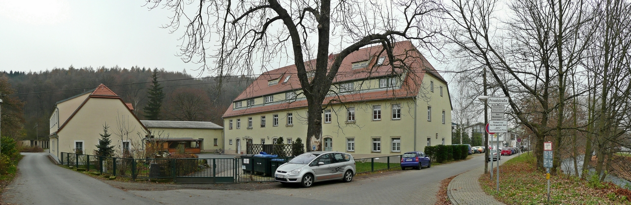 Pirna-Südvorstadt: view on the "Höllengut", a former farm nowadays used as dwelling house.